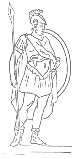 Sacred Band footman of the army of Hannibal, as printed in Theodore Ayrault Dodge's A HISTORY OF THE ART OF WAR AMONG THE CARTHAGINIANS AND ROMANS DOWN TO THE BATTLE OF PYDNA, 168 B. C., WITH A DETAILED ACCOUNT OF THE SECOND PUNIC WAR Houghton Mifflin Company, Boston & New York (1891). Hand scanned.